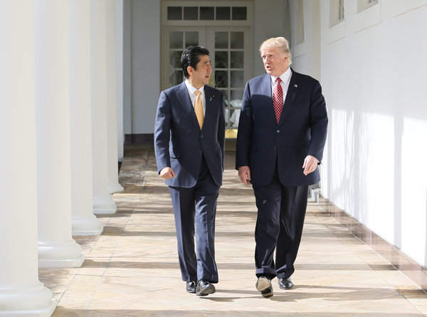 Prime Minister Shinzō Abe and President Donald Trump walking along the West Colonnade.